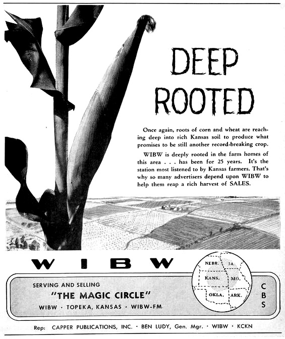 Promotional advertisement for radio station WIBW in Topeka, Kansas